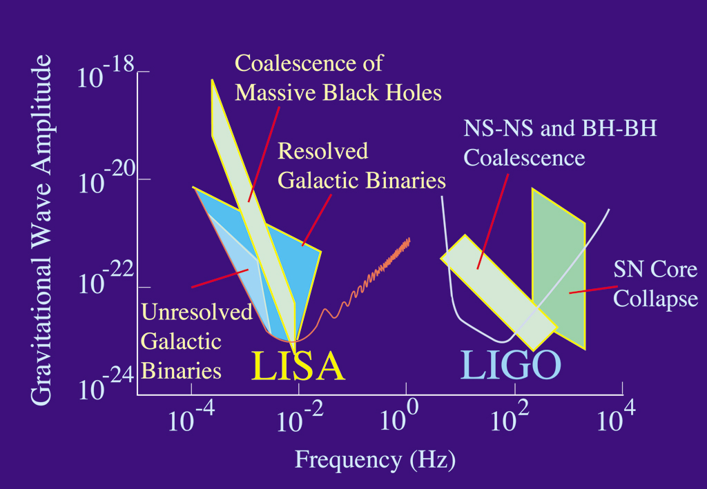 LISA will search for low-frequency gravitational waves that will never be detectable by any terrestrial detectors, existing or planned. These low-frequency gravitational waves cannot be detected on Earth because Earth's gravitational field is constantly changing (due to atmospheric effects and ground motions). These changes cause motion of proof masses in a way which is indistinguishable from the motion caused by gravitational waves. Ground-based detectors like the Laser Interferometer Gravitational-Wave Observatory (LIGO) will view the high-frequency waves from transient phenomena, like supernovae and the final minutes of inspiraling neutron-star binaries. LISA will observe the lower frequency waves from quasi-periodic sources, like compact star binaries long before coalescence, and supermassive black-hole binaries in the final months of coalescence.